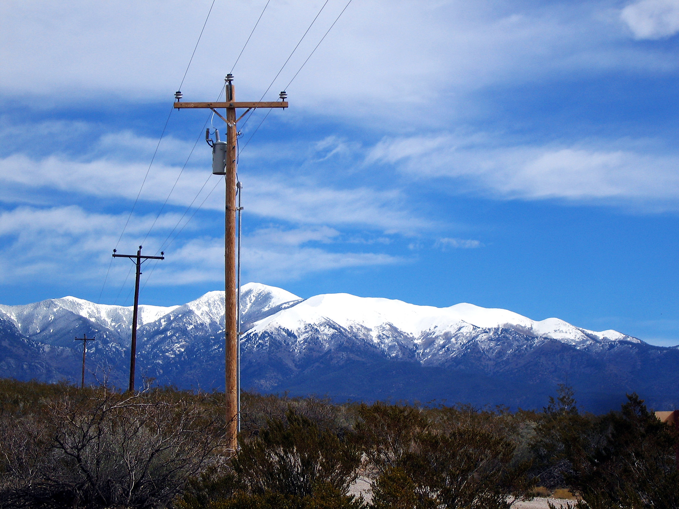 Sierra Blanca and electricity pole